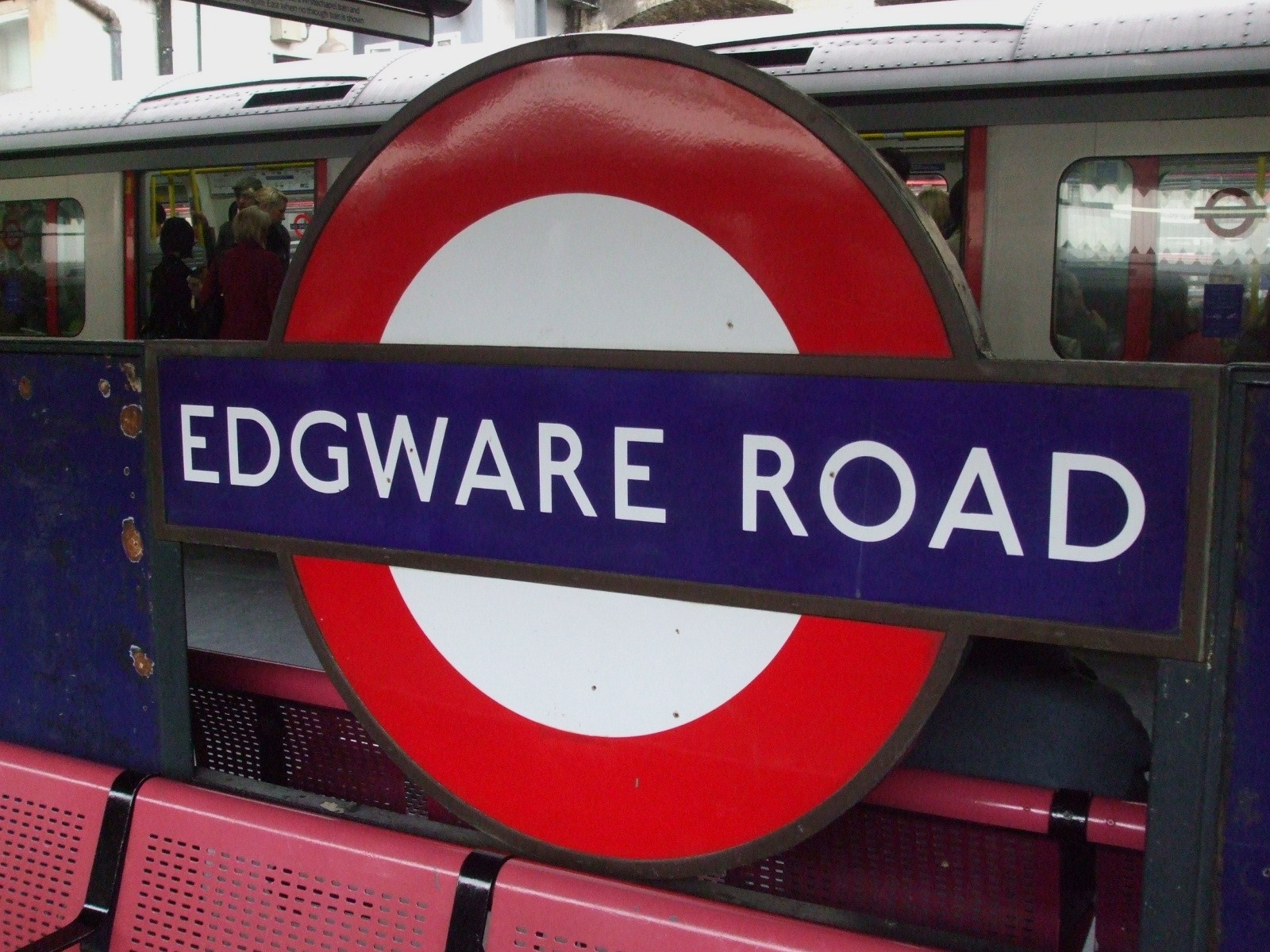 Edgware Road tube station (Circle/District/Hammersmith & City lines) platforms roundel